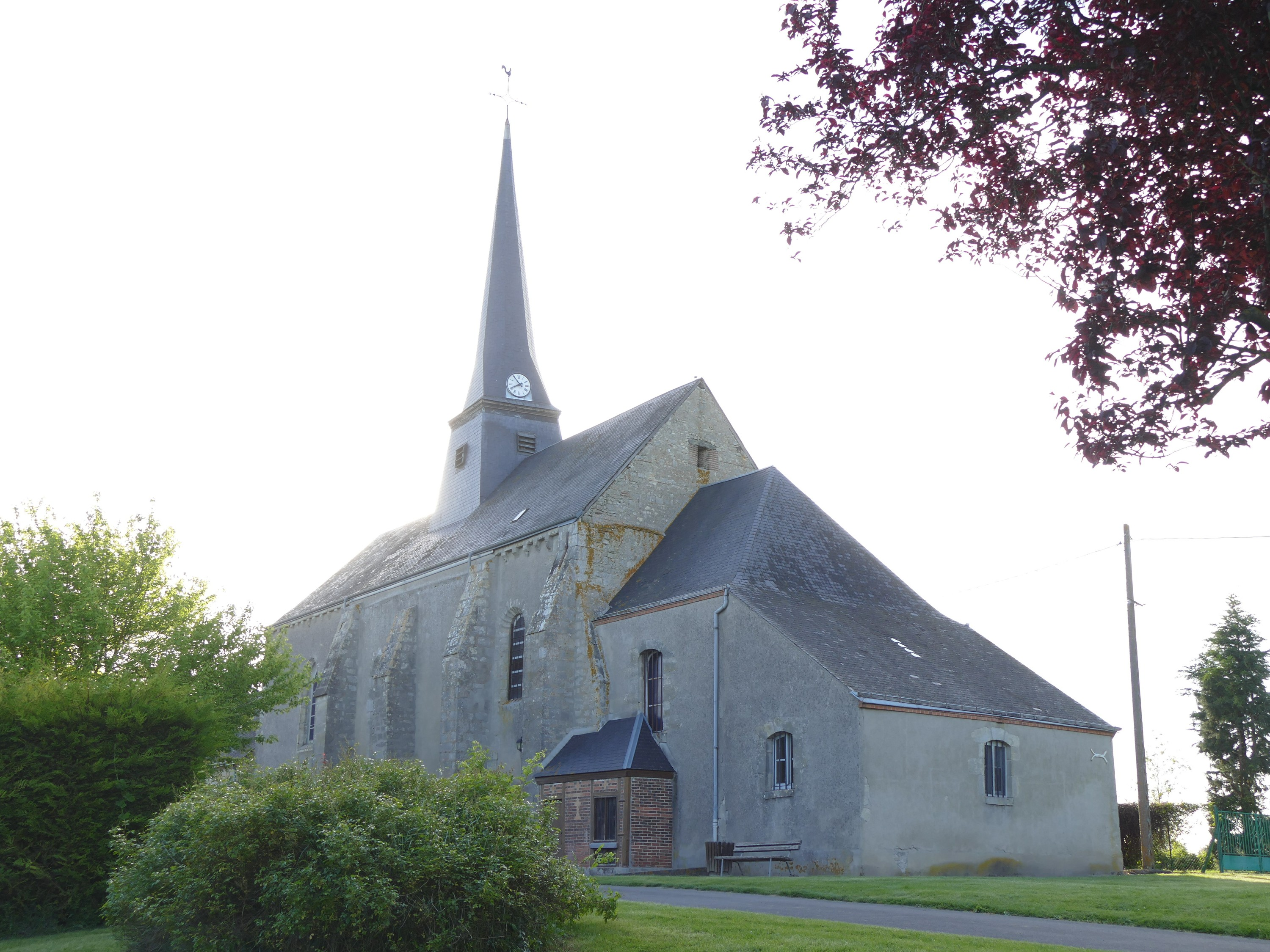 Saint-Aignan's church in Montigny (Loiret, Centre-Val de Loire, France).